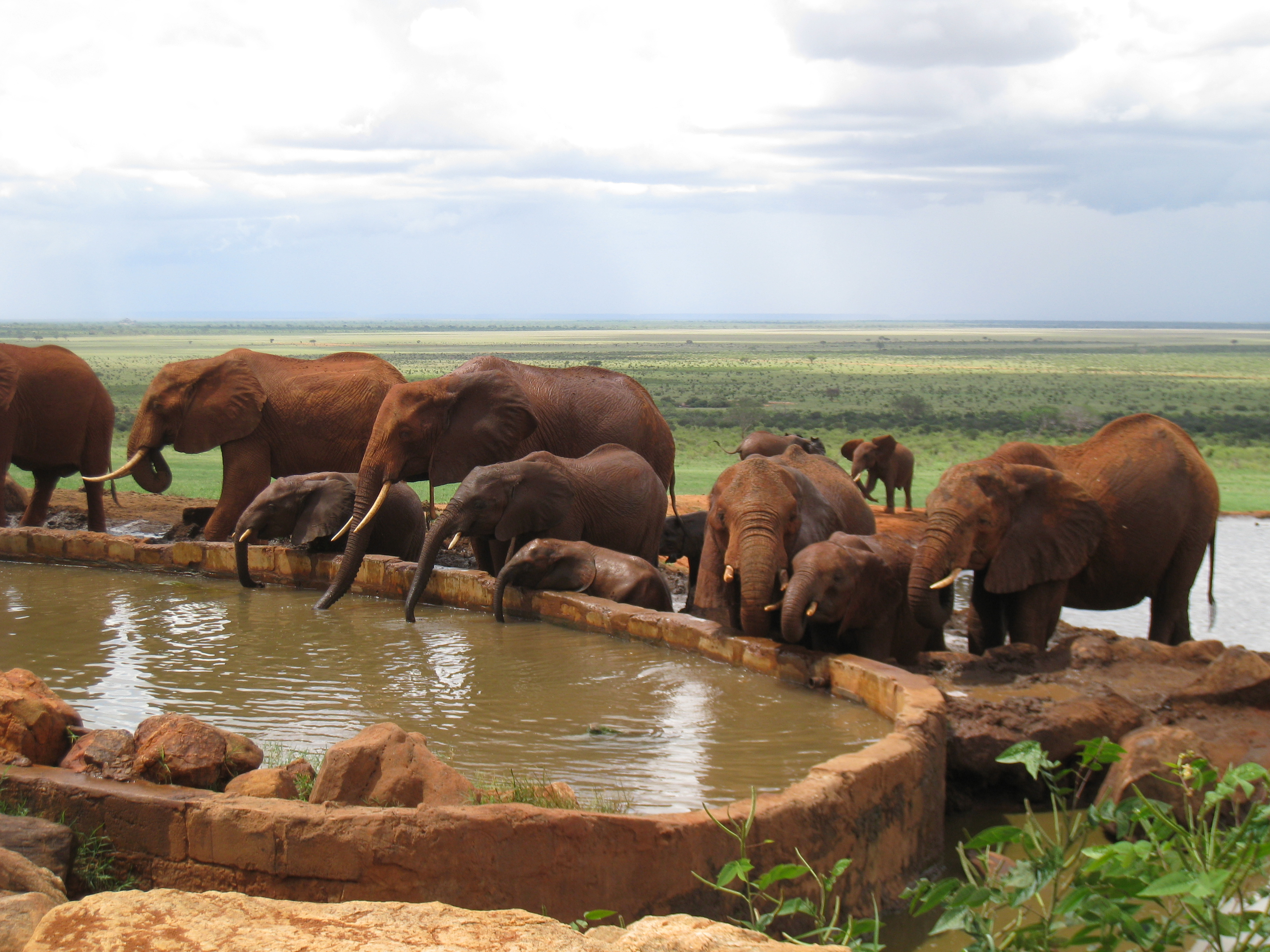 I look at the red elephant from the Voi Safari Lodge.